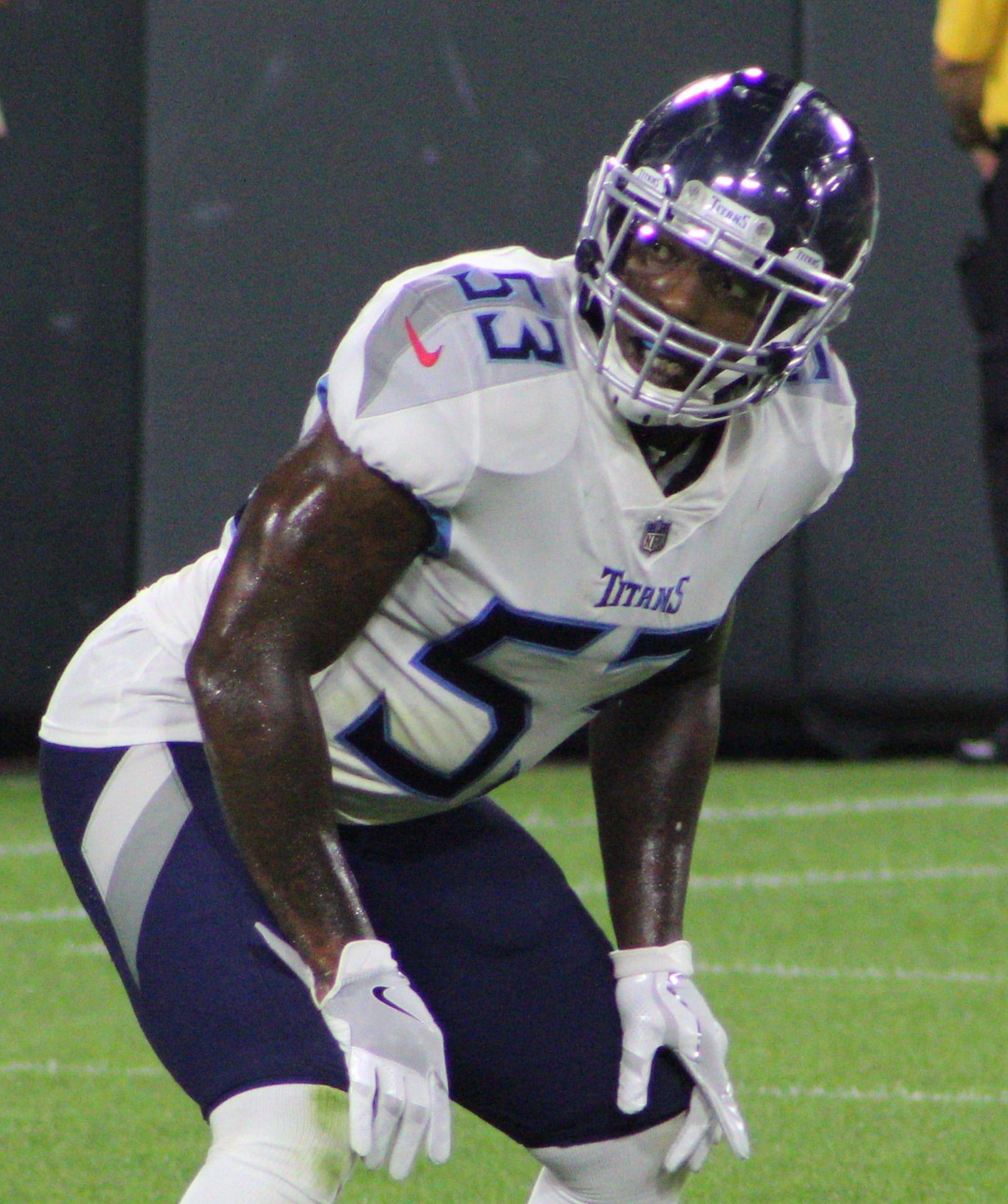 Daren Bates, Tennessee Titans at Green Bay Packers (Preseason), August 9, 2018